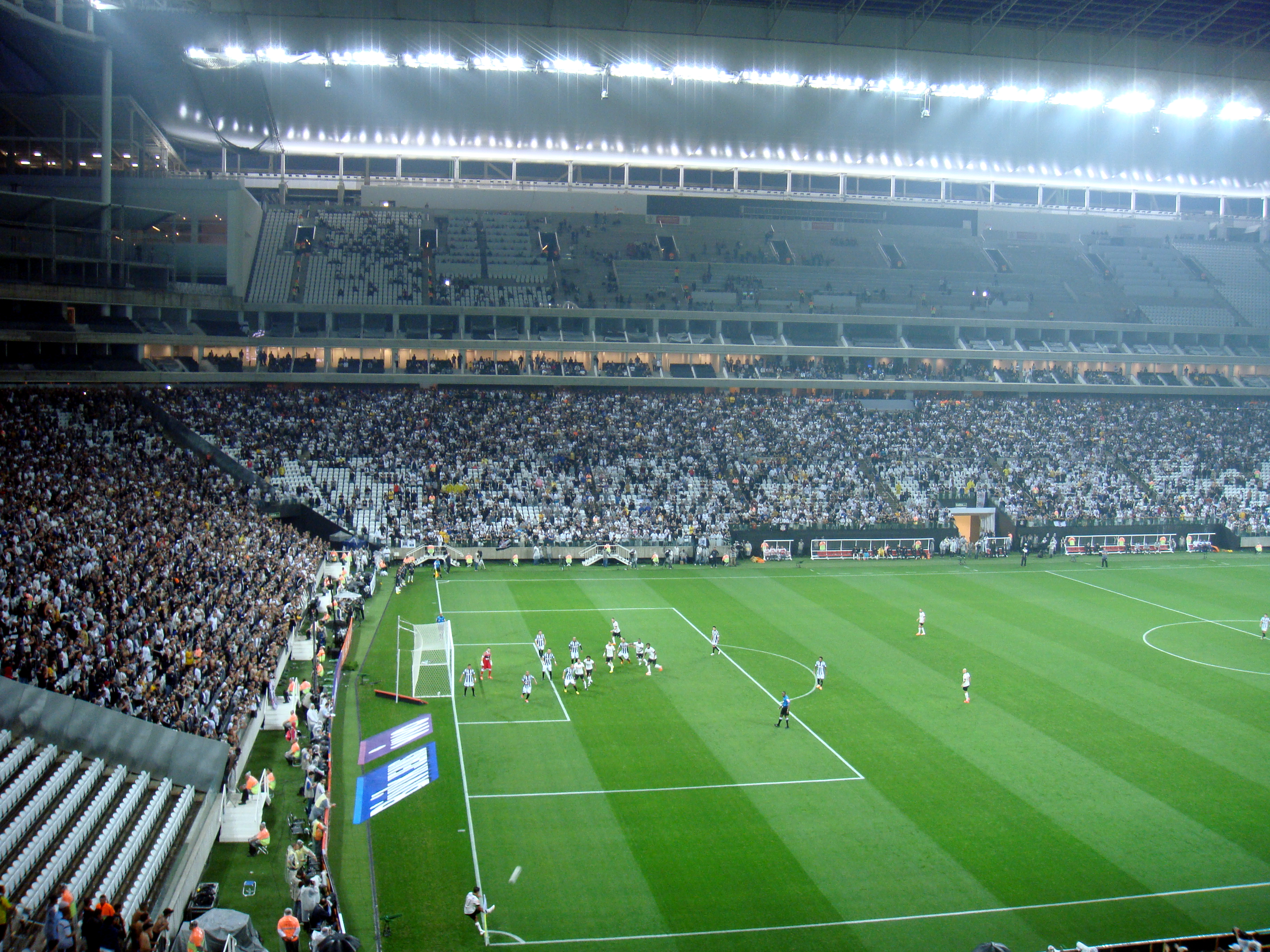 Reflectors lit during Corinthians vs Figueirense